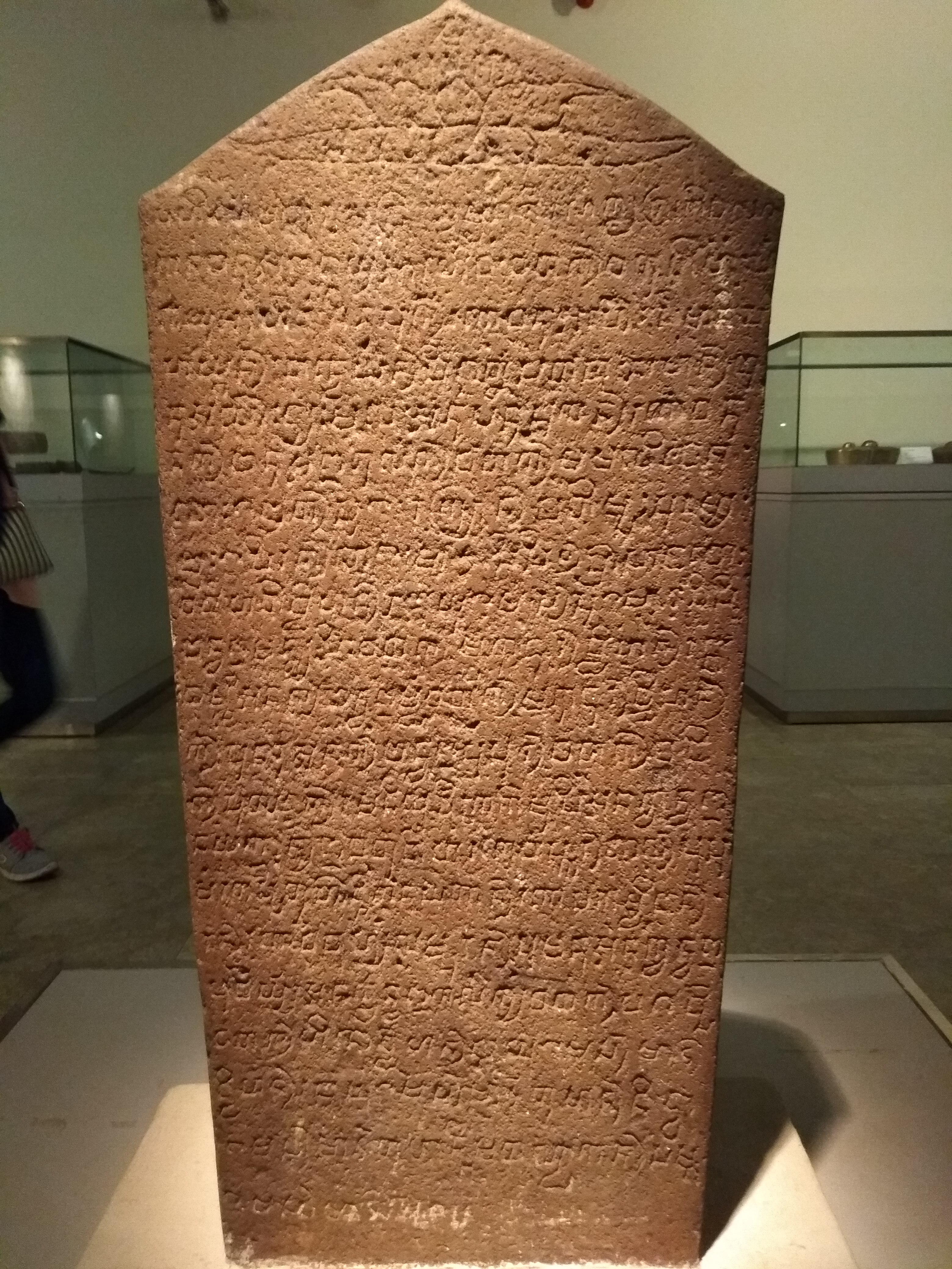 Kayu Ara Hiwang inscription, found in the village of Boro Wetan, Purworejo, Central Java, Indonesia. Dated 823 Çaka / 901 A.D. Collection of the National Museum of Indonesia, Inventory no. D. 78.